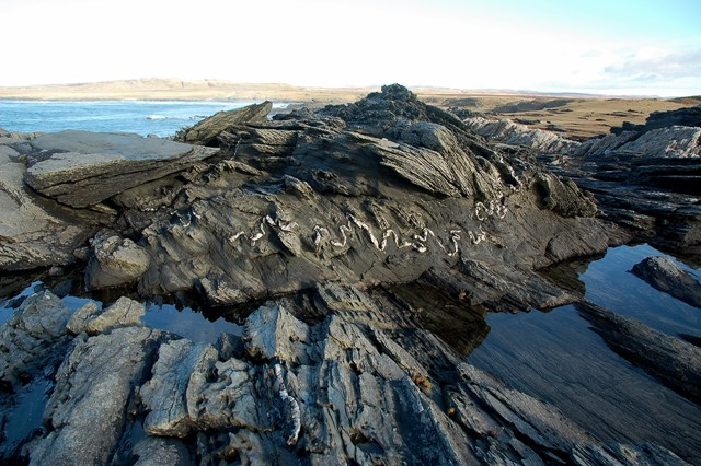 Geology Lesson Signs of igneous activity in the Torridonian slates at Campa. The thin wriggly white line is a small band of quartz. The broad grey-white rock on the right-hand side is part of a ring-dyke made of felsite.